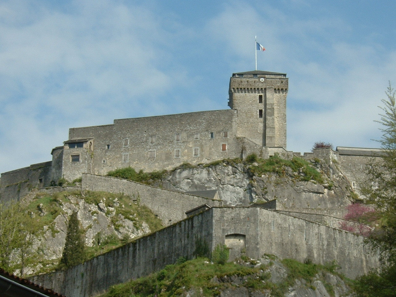 Lourdes : castle, western view.